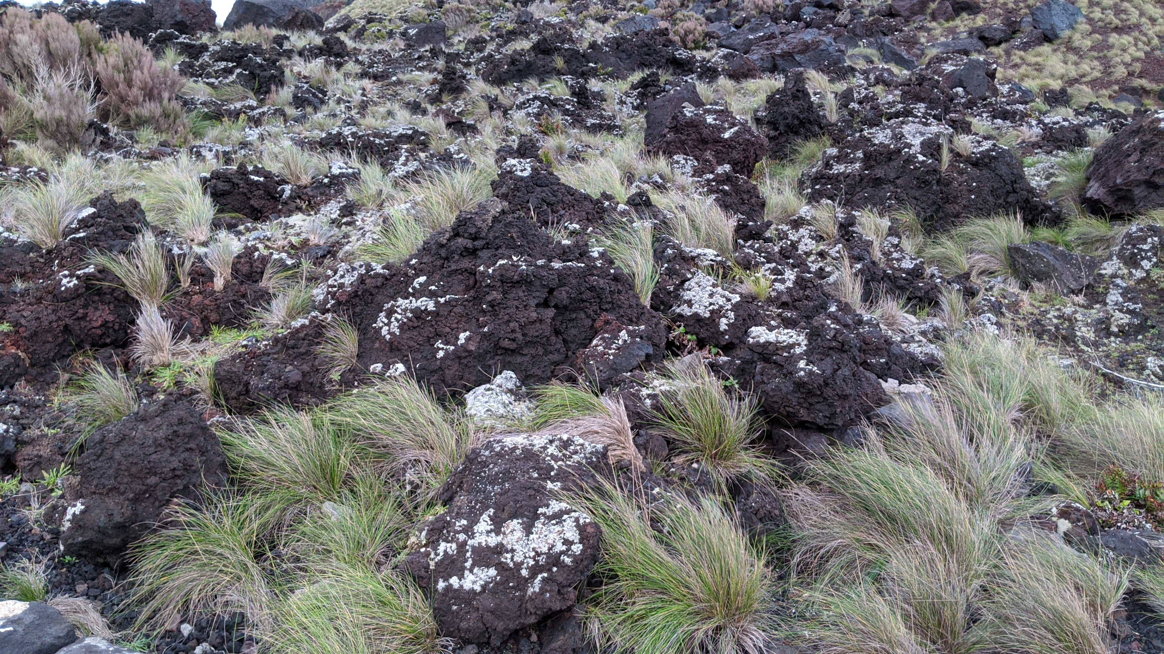 Festuca petraea in Ponta da Ferraria, São Miguel, Azores